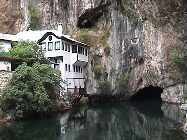 Kanqah in Blagaj, with Buna spring, Bosnia and Herzegovina